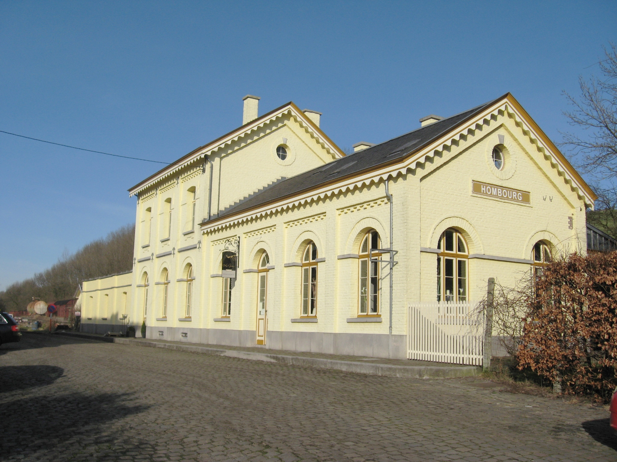 Former train station of Hombourg, Plombières, Liège, Belgium